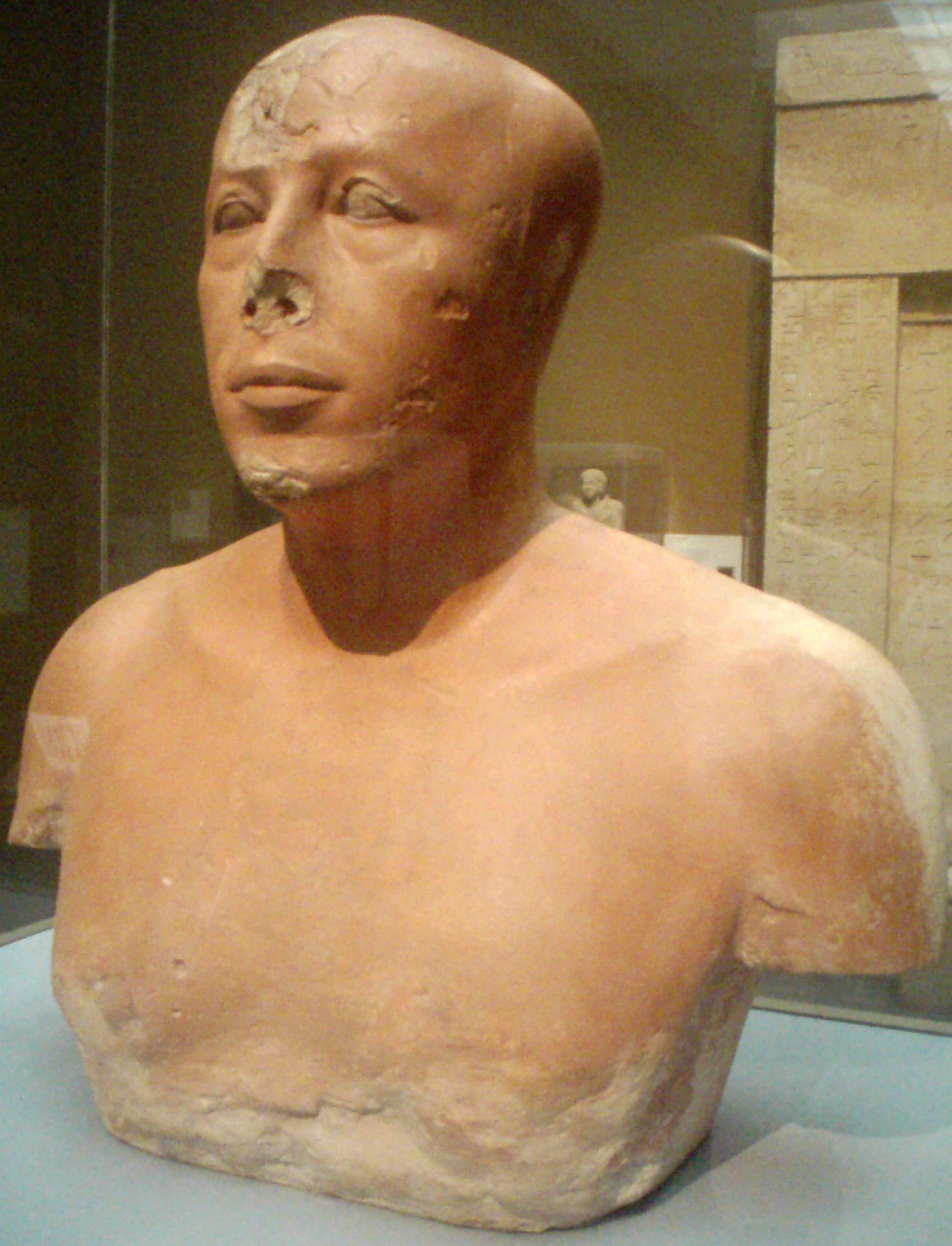 Bust of Prince Ankhhaf, from Giza, tomb G 7310. From the 4th dynasty, during the reign of Khafra, circa 2575-2550 B.C. Painted limestone. Now residing in the Museum of Fine Arts, Boston. Museum Expedition 27.442